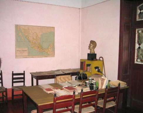 Leon Trotsky's last study where the fatal attack took place.